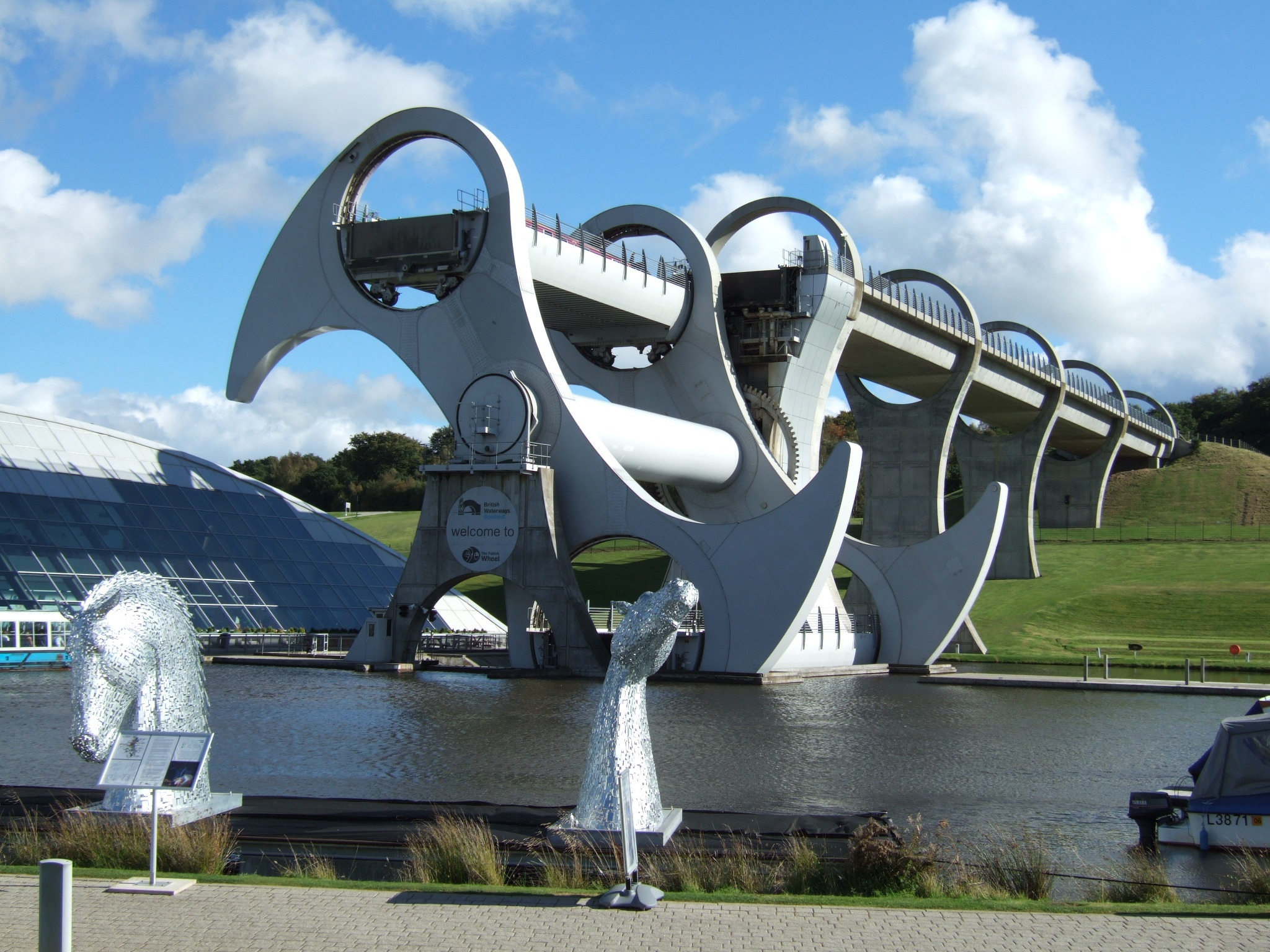 We're back on the mainland, heading to Dalgety Bay, and we stopped off in Falkirk to see this marvel of engineering. Threre's a canal at the top and a canal at the bottom. At rest, the wheel sits with a gondola at each level, filled with water. Barges sail in, and the water relevels, but due to Achimedes' principle, the weight in the gondolas remains the same. The wheel, in perfect balance, is turned by a small electric motor (same power requirements as a few teakettles, we're told) and the gondlas stay level thanks to wheels within the wheel. The rotation takes 5 minutes, and then the barges sail out. It's truly brilliant.